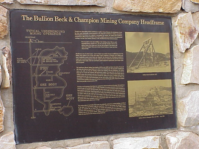 I took this photo of the marker near one of the headframes in Eureka. A headframe is the top of a mine shaft. This sign is on public display beside the main road.